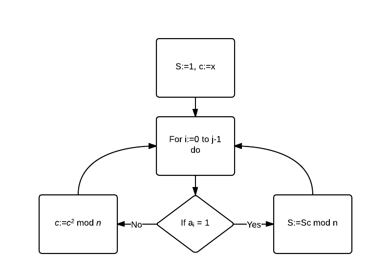 Block